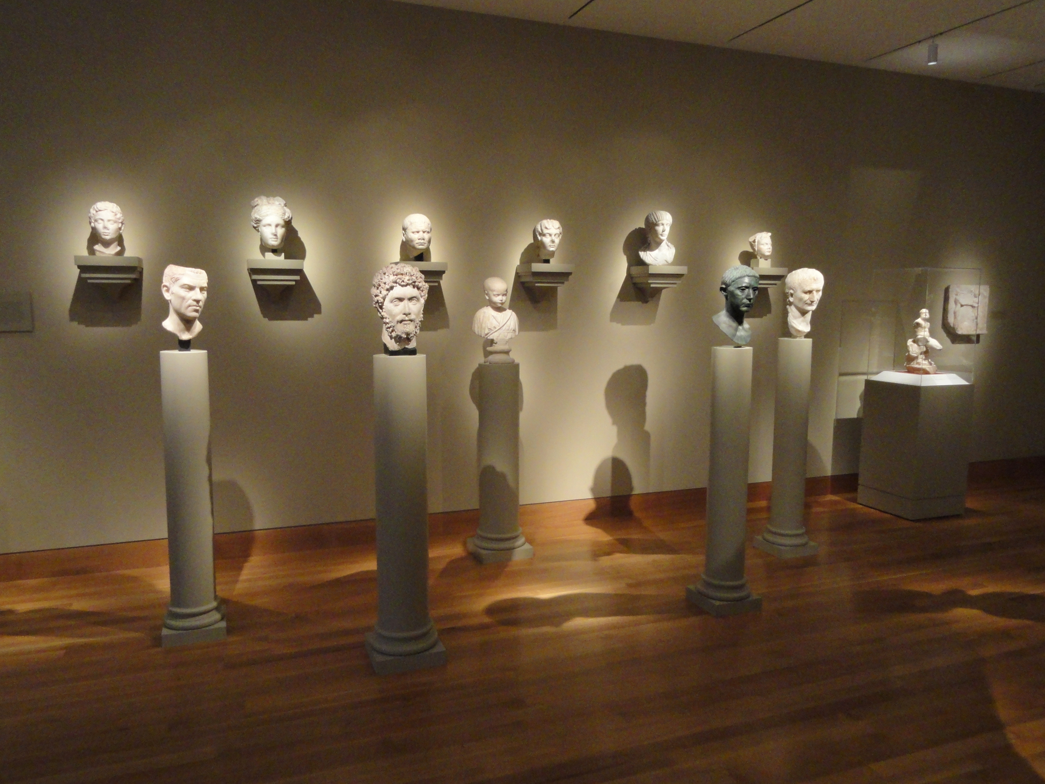 Exhibit in the Cleveland Museum of Art, Cleveland, Ohio, USA. This artwork is old enough so that it is in the public domain.